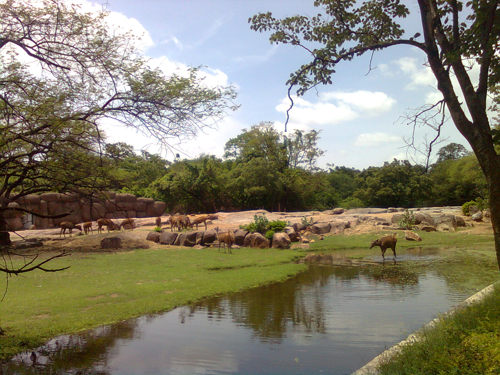 Nehru Zoological Park Hyderabad